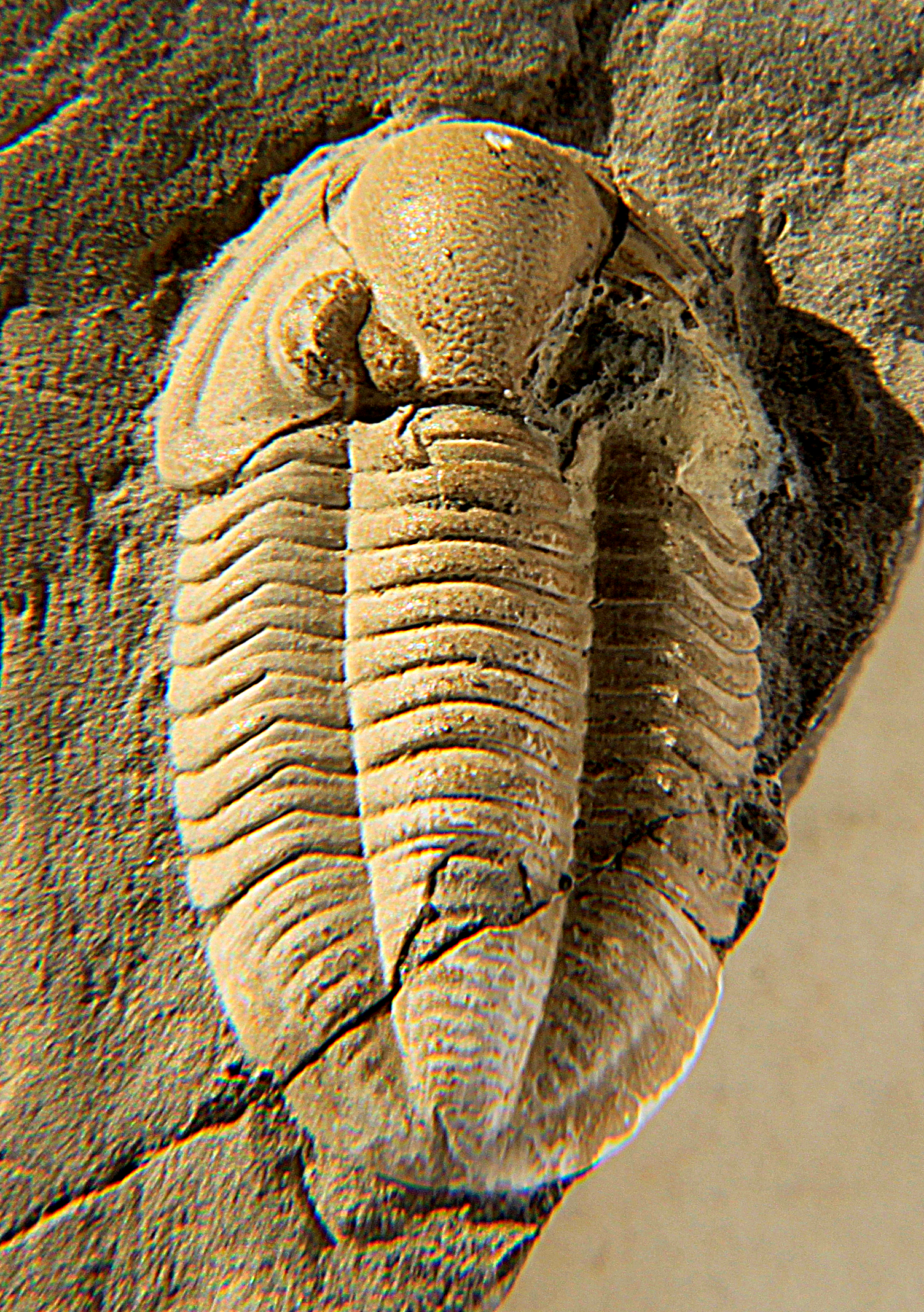 A specimens of Cummingella belisama, Order Proetida, Family Proetidae, 18mm along the axis, dorsal view, stronger shading, collected from the Kohlenkalk of Tournai, Belgium, from the Lower Carboniferous/Missisippian (Tournaisian)